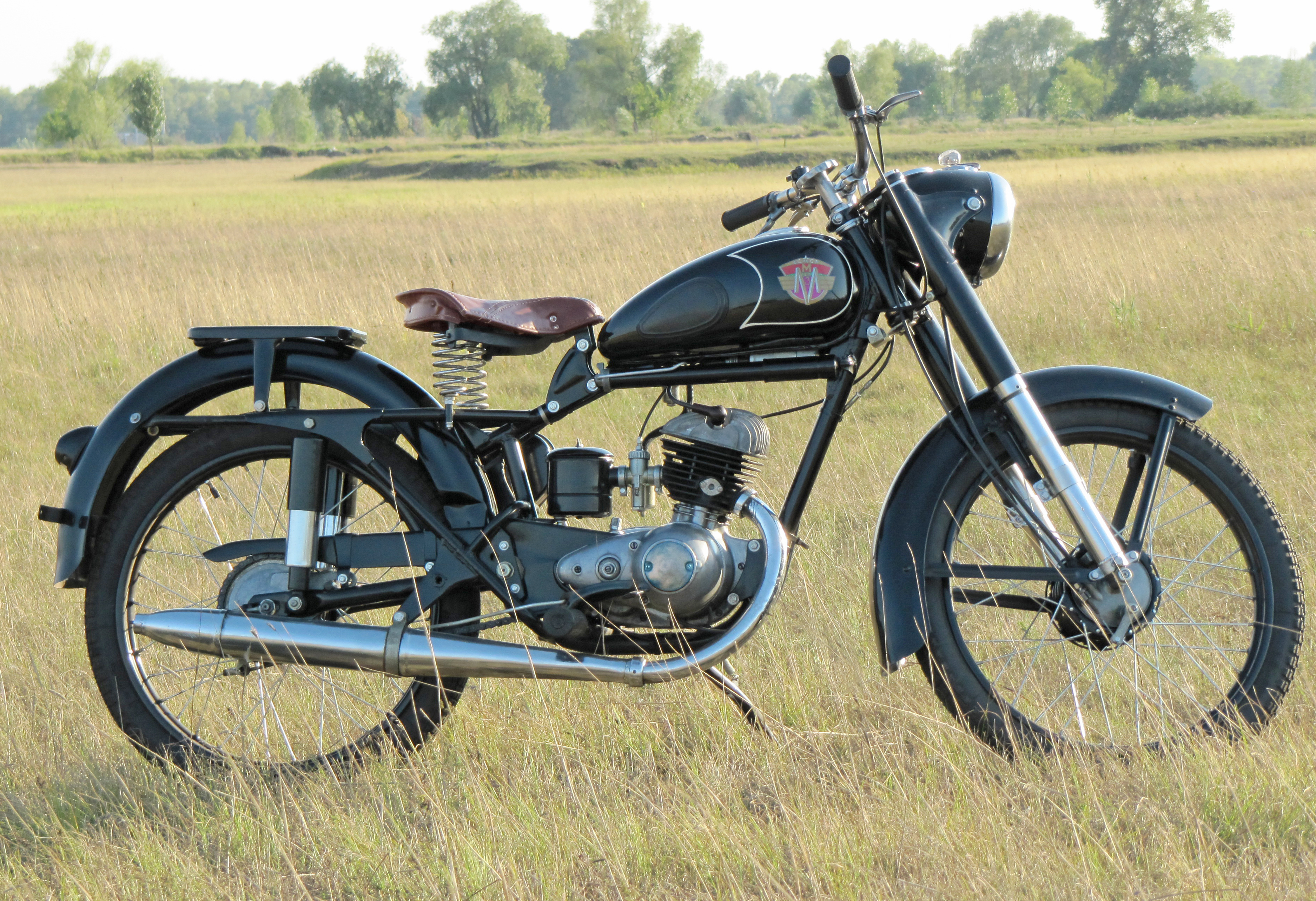 USSR Motorcycle Minsk M-103, 1964